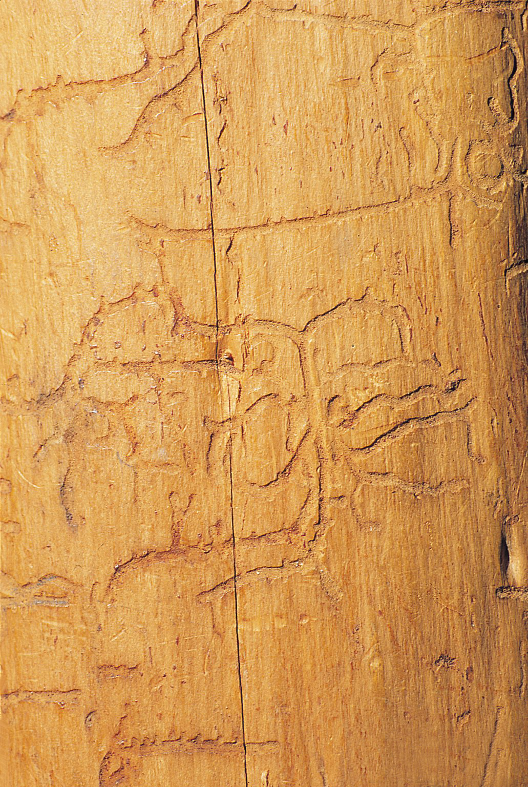 Pityokteines vorontzowi